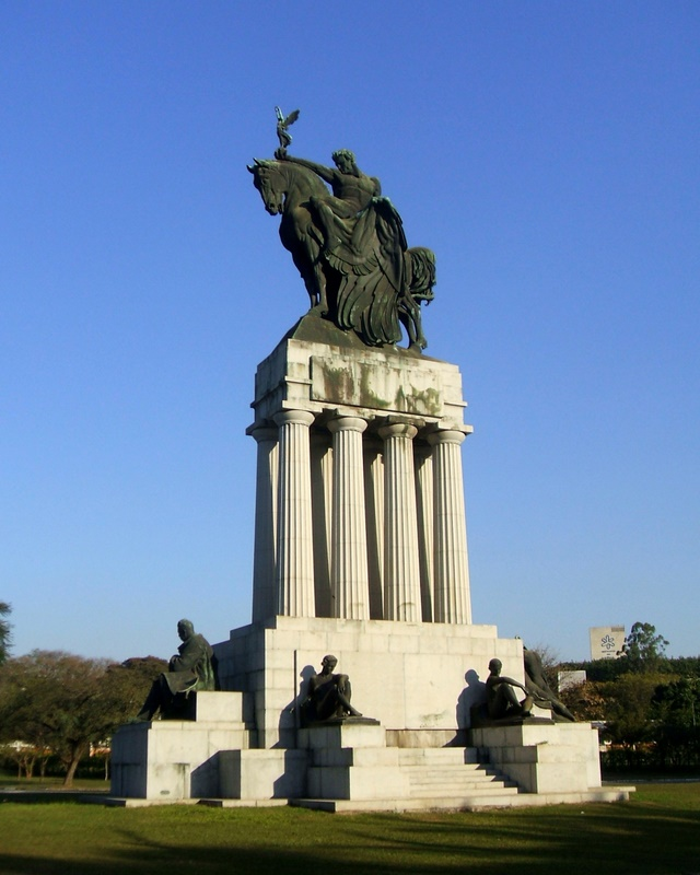 Monument to Ramos de Azevedo, by Galileo Emendabili (São Paulo, Brazil)